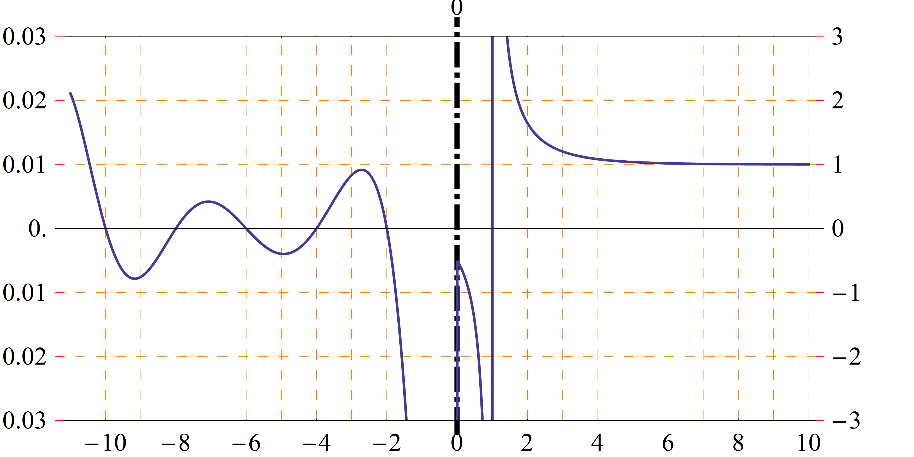 Riemann zeta function. Function is scaled by factor 100 in negatives.